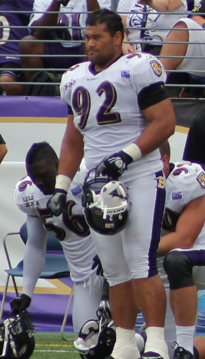 Haloti Ngata Practice at M&T Bank Stadium August 2011